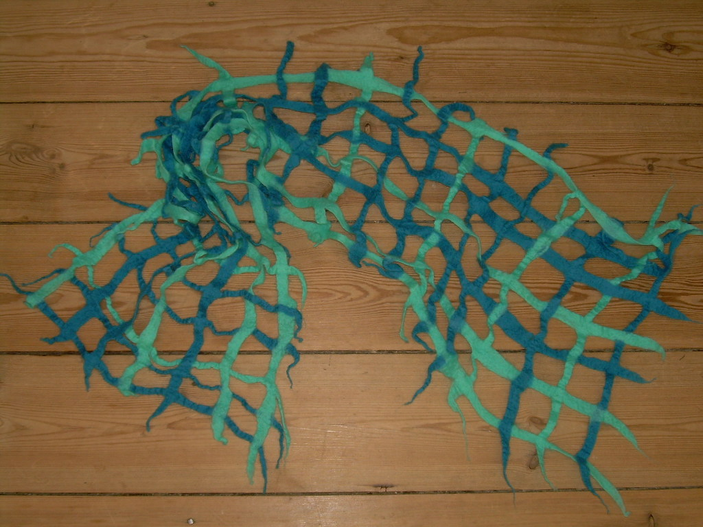 Photo of felted shawl